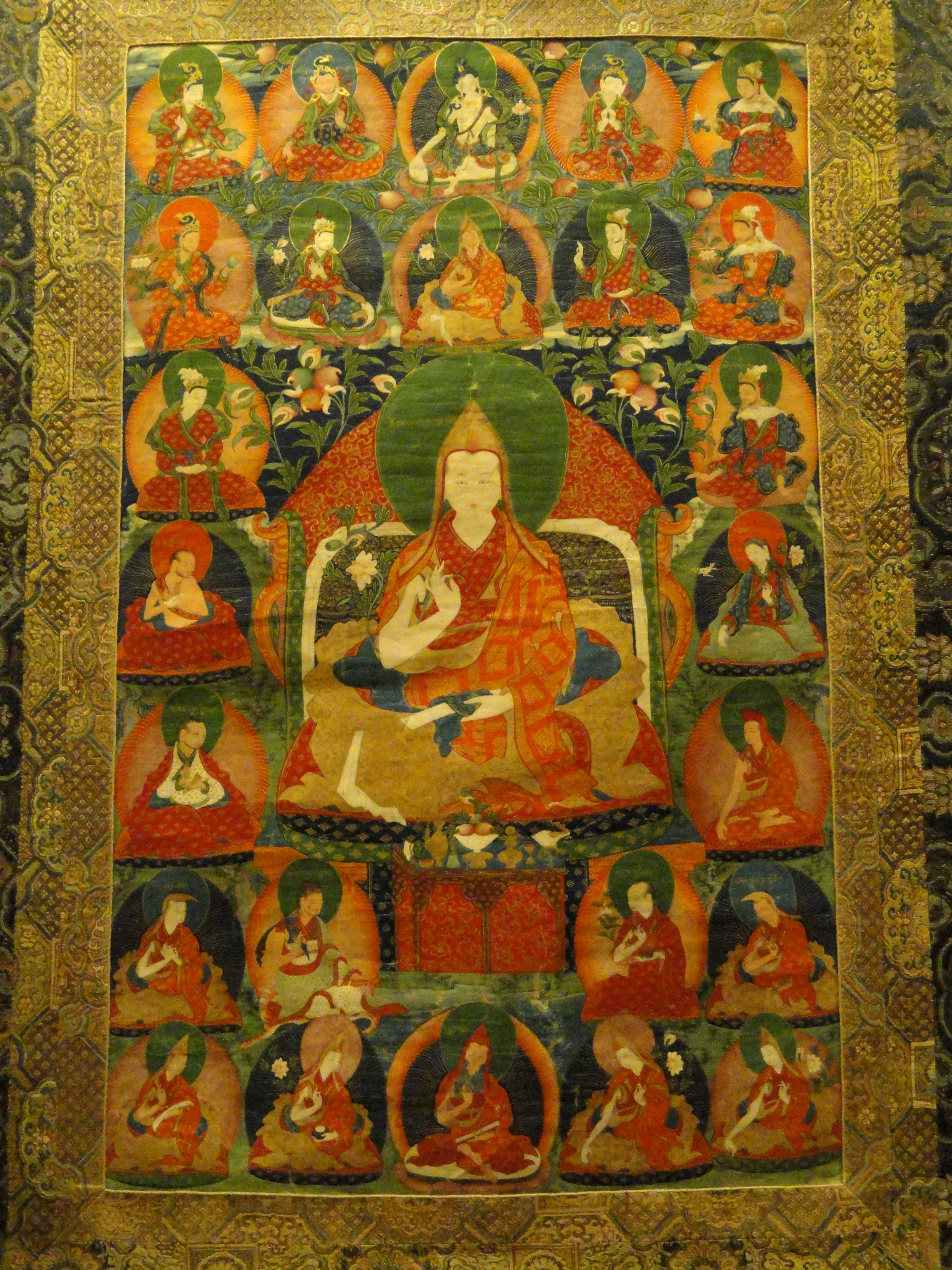 Exhibit in the Asian collection of the American Museum of Natural History, Manhattan, New York City, New York, USA.